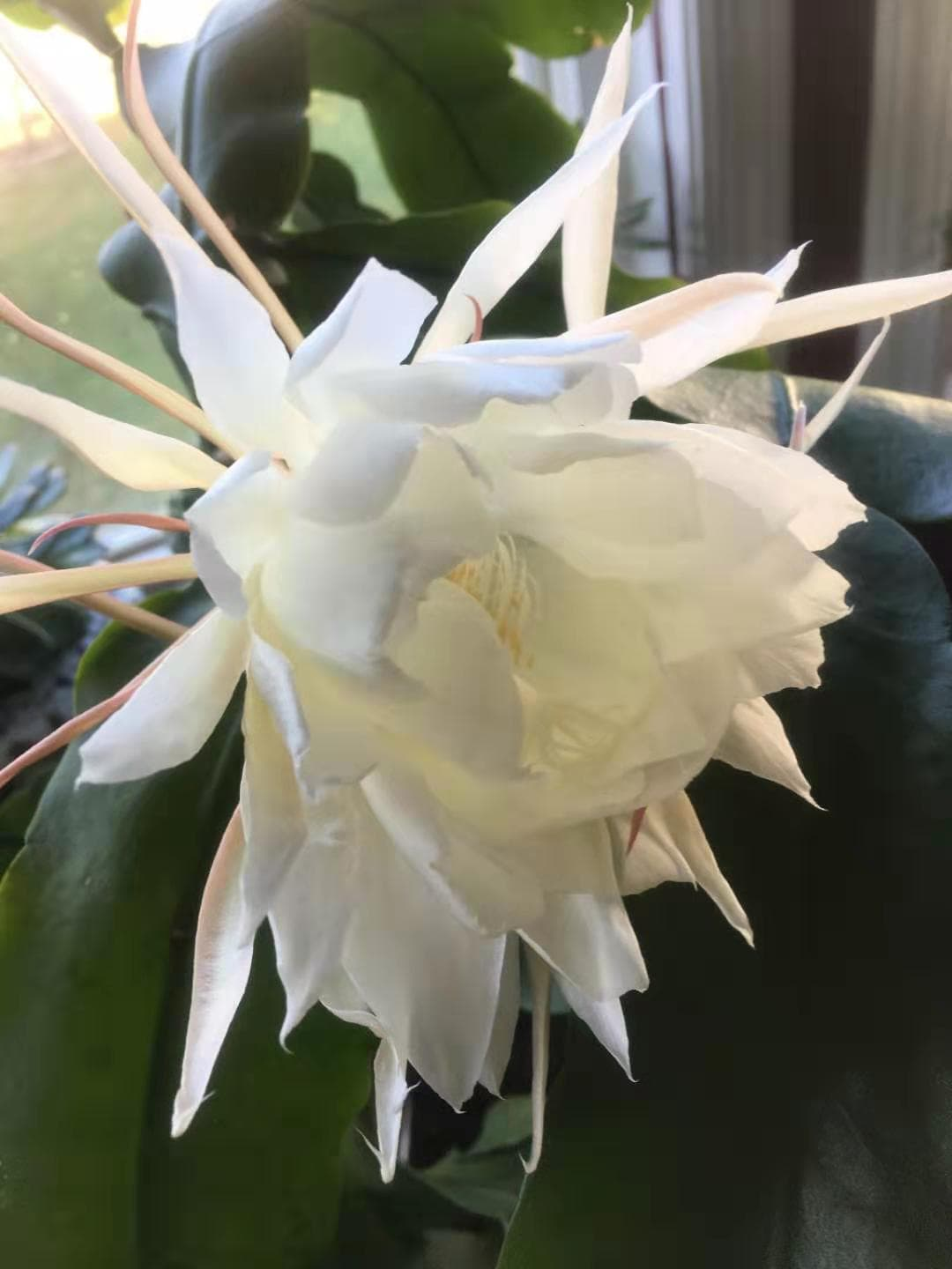 Epiphyllum oxypetalum Flowering from a side view